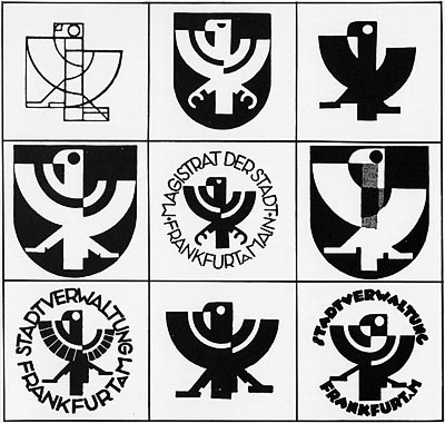 Coat of arms of Frankfurt